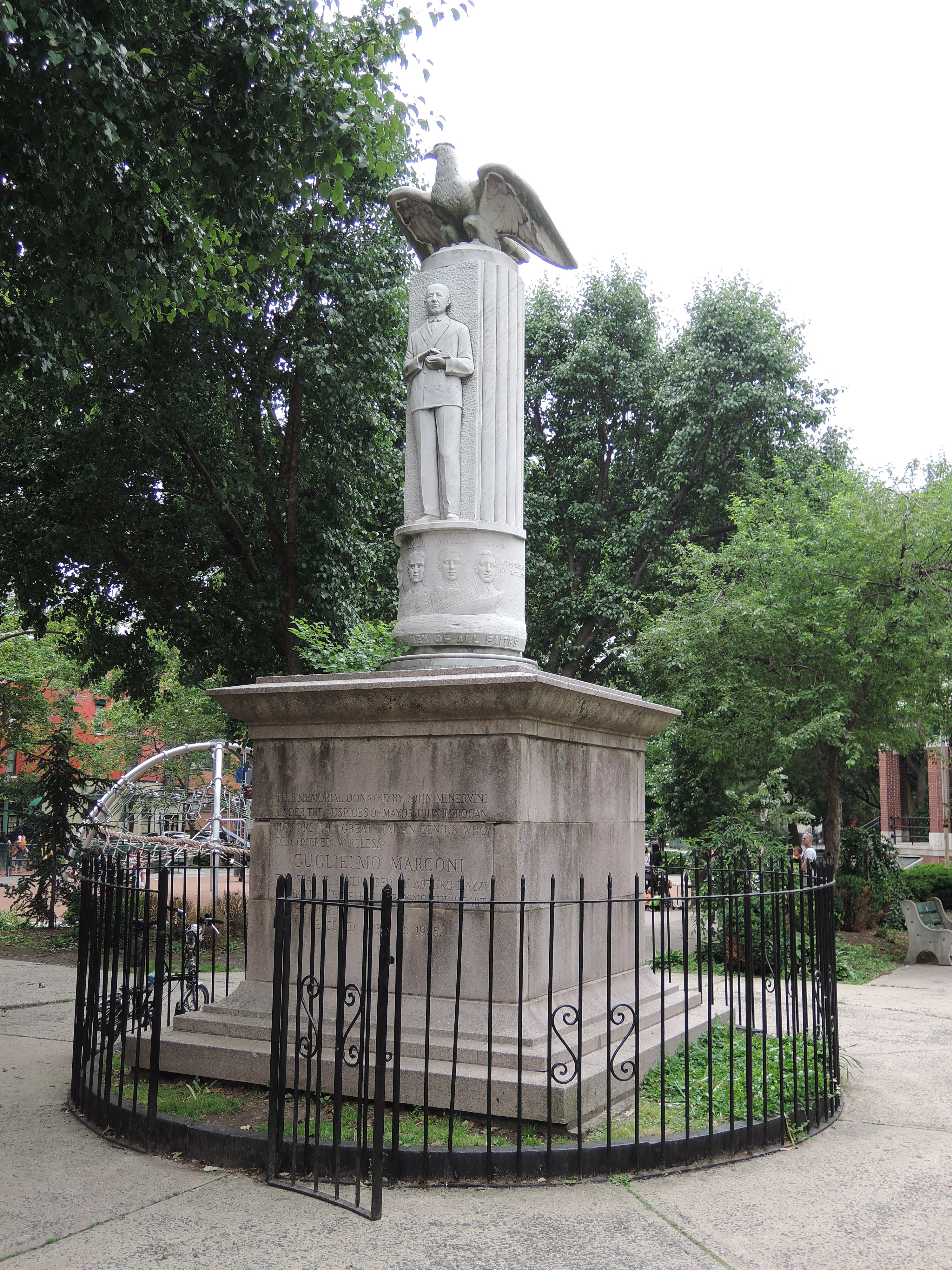 Looking west at monument on a cloudy day.